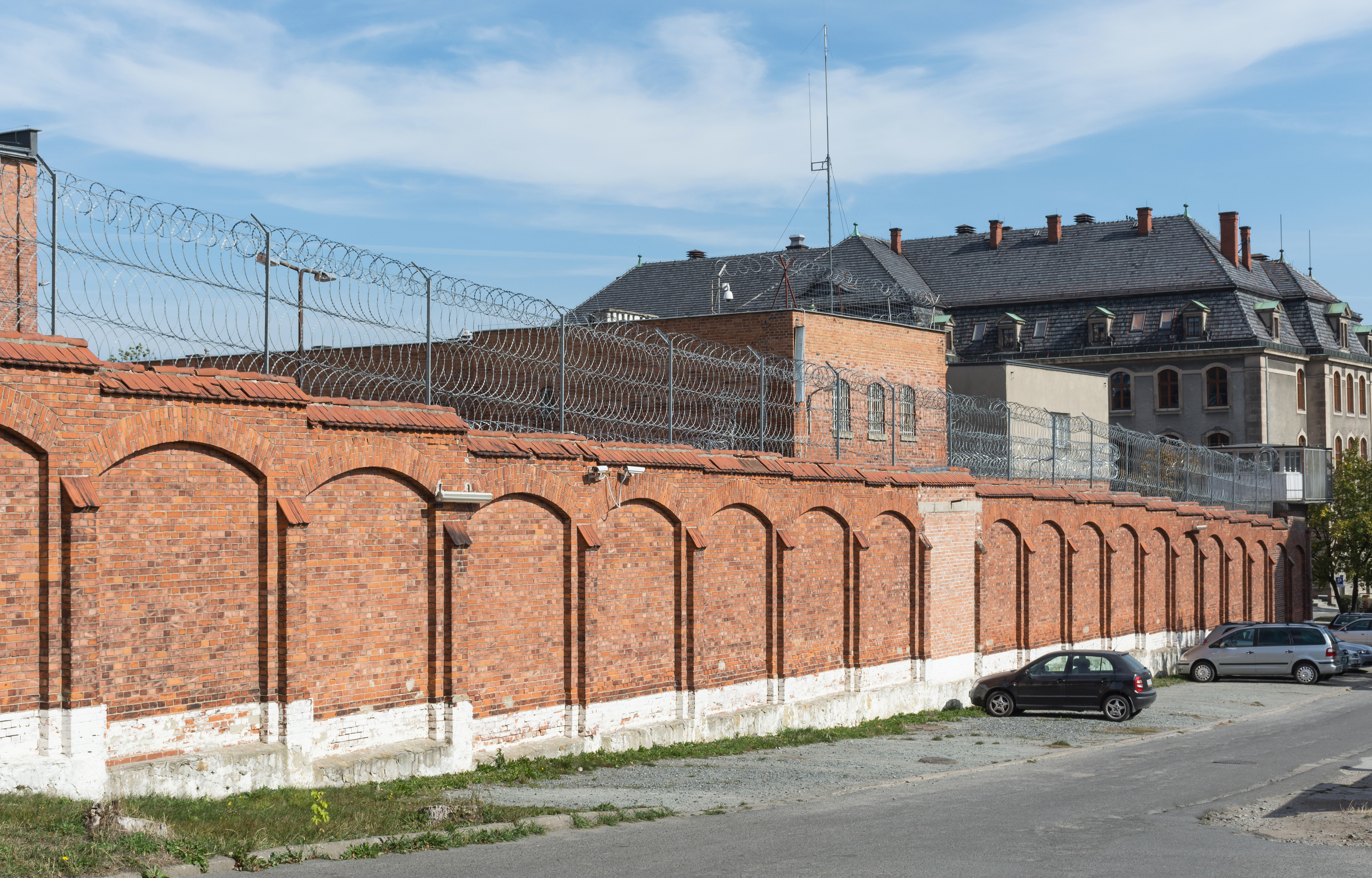 Prison in Kłodzko